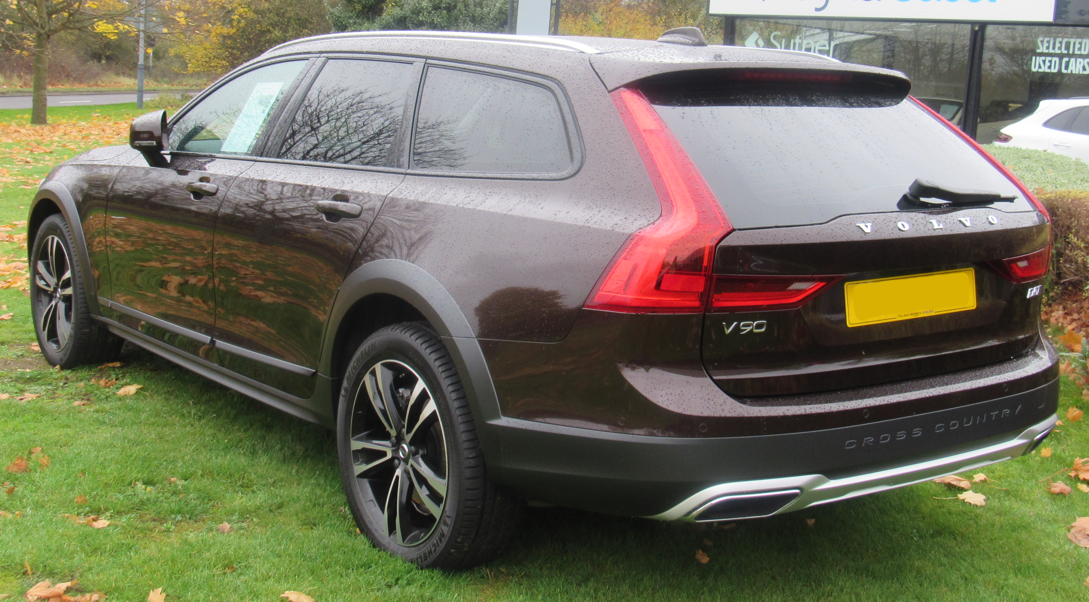 2017 Volvo V90 CRoss Country D5 PP Automatic 2.0 Rear Taken in Leamington Spa